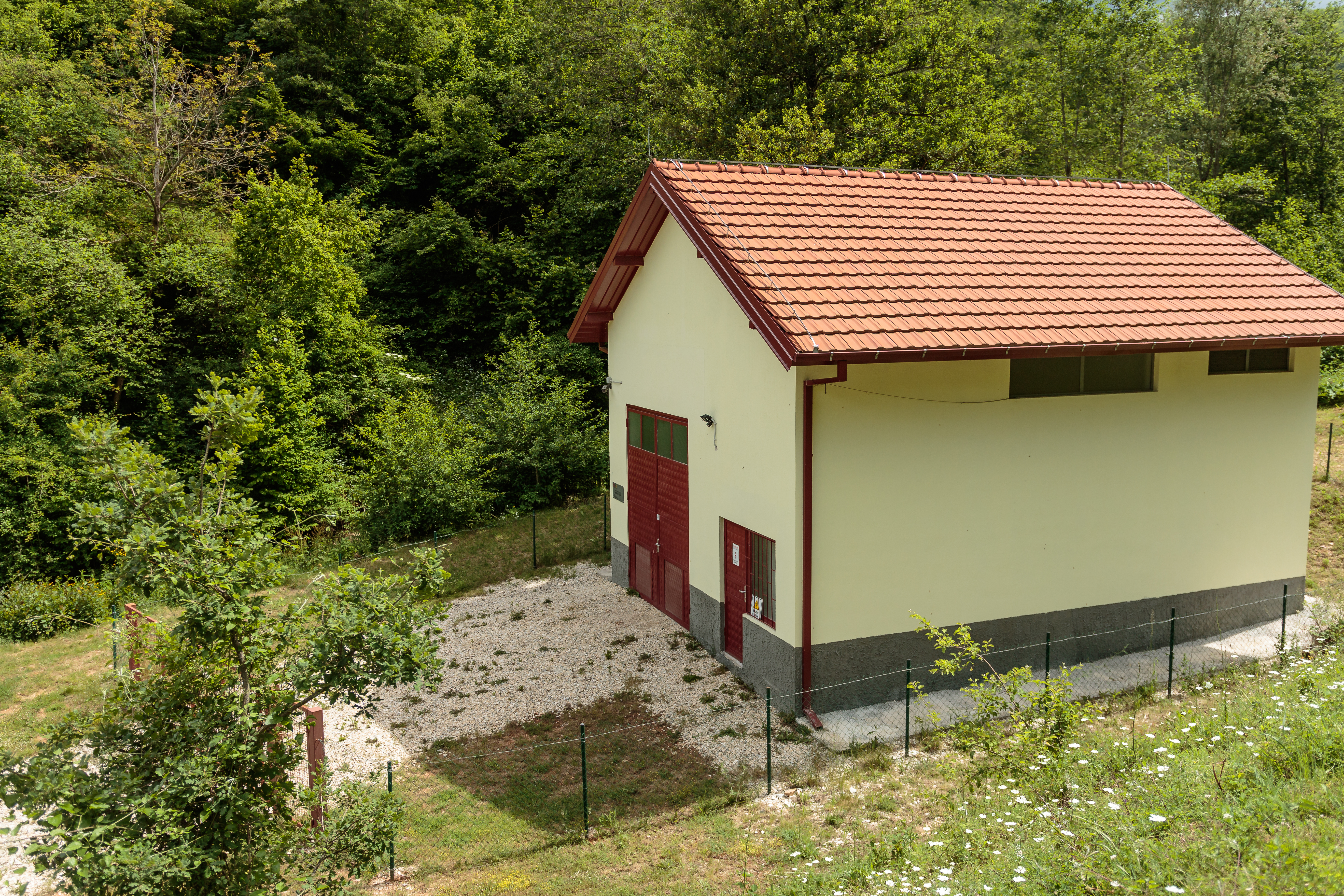 View of the small hydro power in the village Bazernik